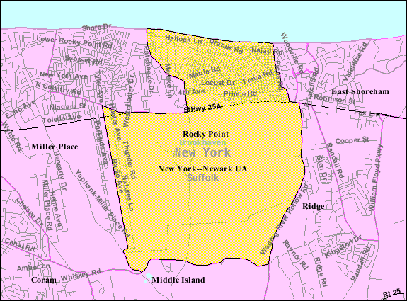 U.S. Census 2000 reference map for Rocky Point